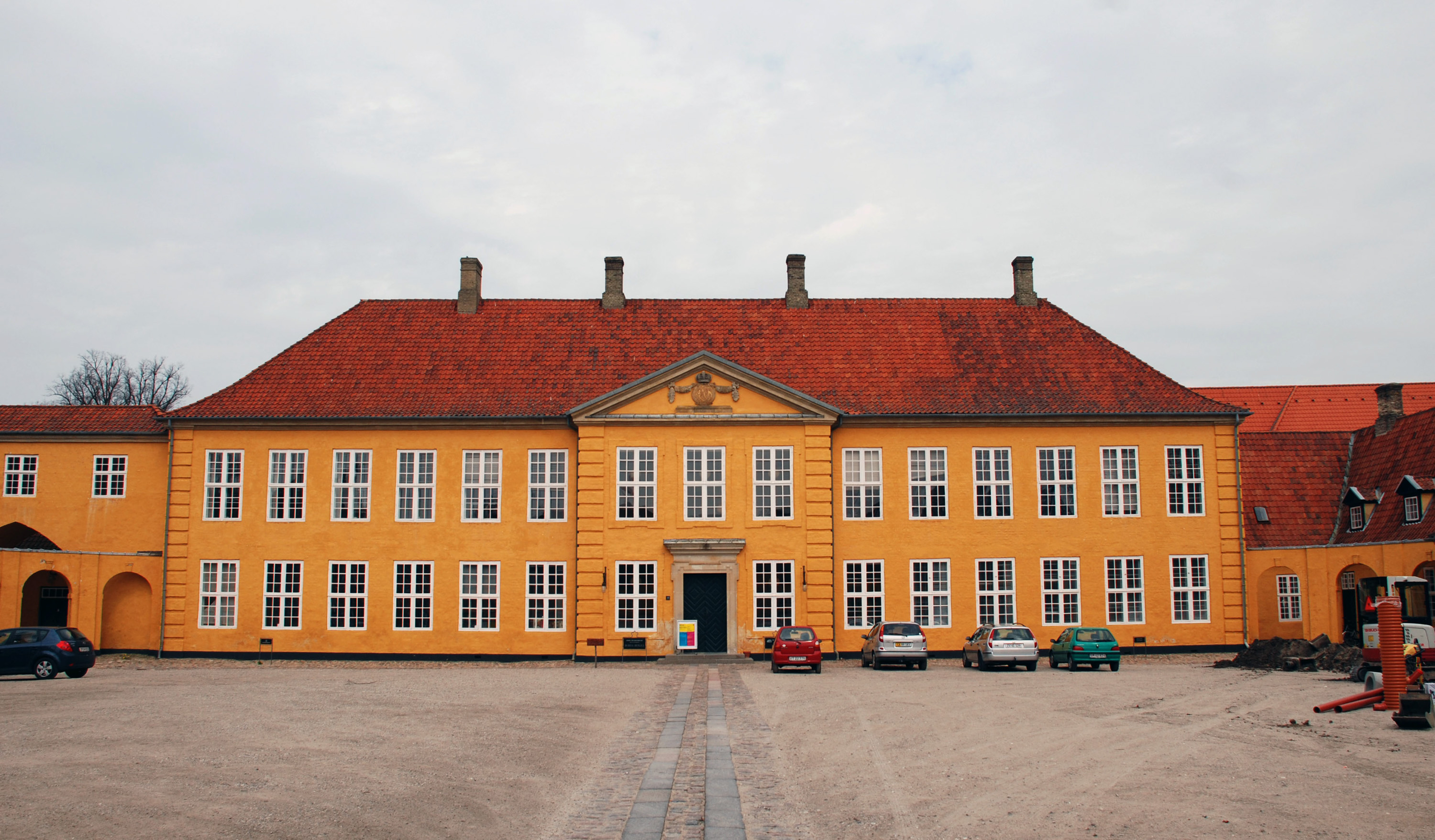 Main wing of Roskilde Palace in Roskilde, Denmark